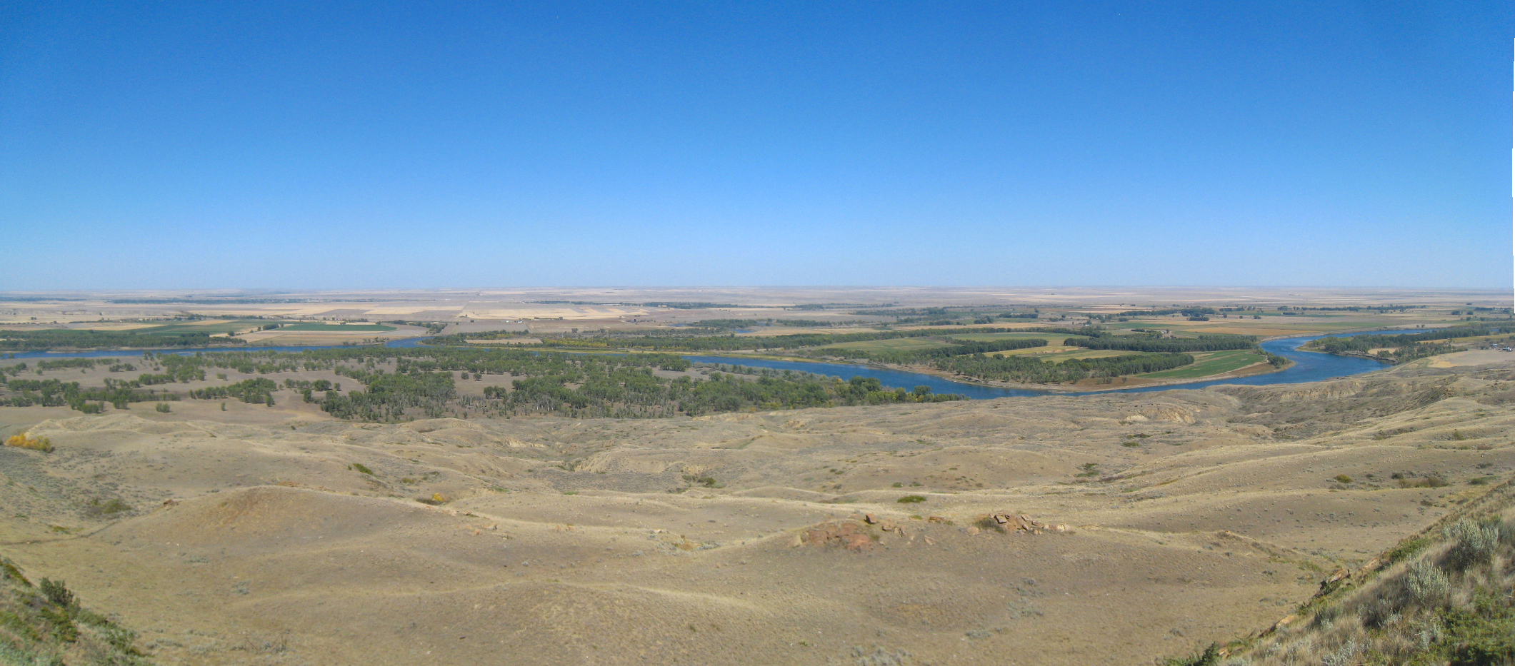 The Missouri River below Fort Peck Dam in McCone County, Montana, in the United States. The Fort Peck Indian Reservation is on the far bank.